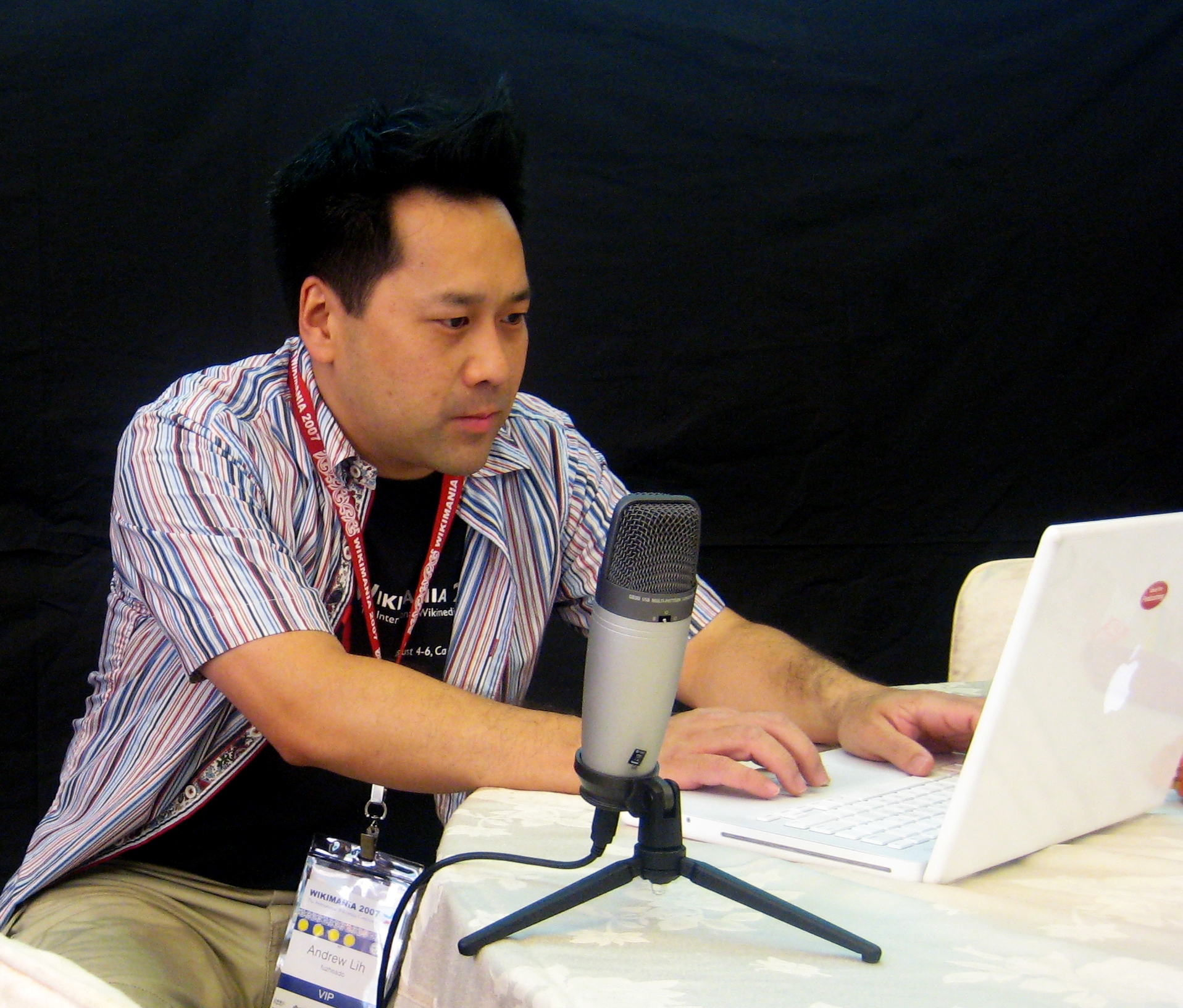 Andrew Lih (酈安治) (Fuzheado) at the Wikimania conference in Taipei, Taiwan, August 3, 2007. Lih works on sending out the opening speech at Wikimania.